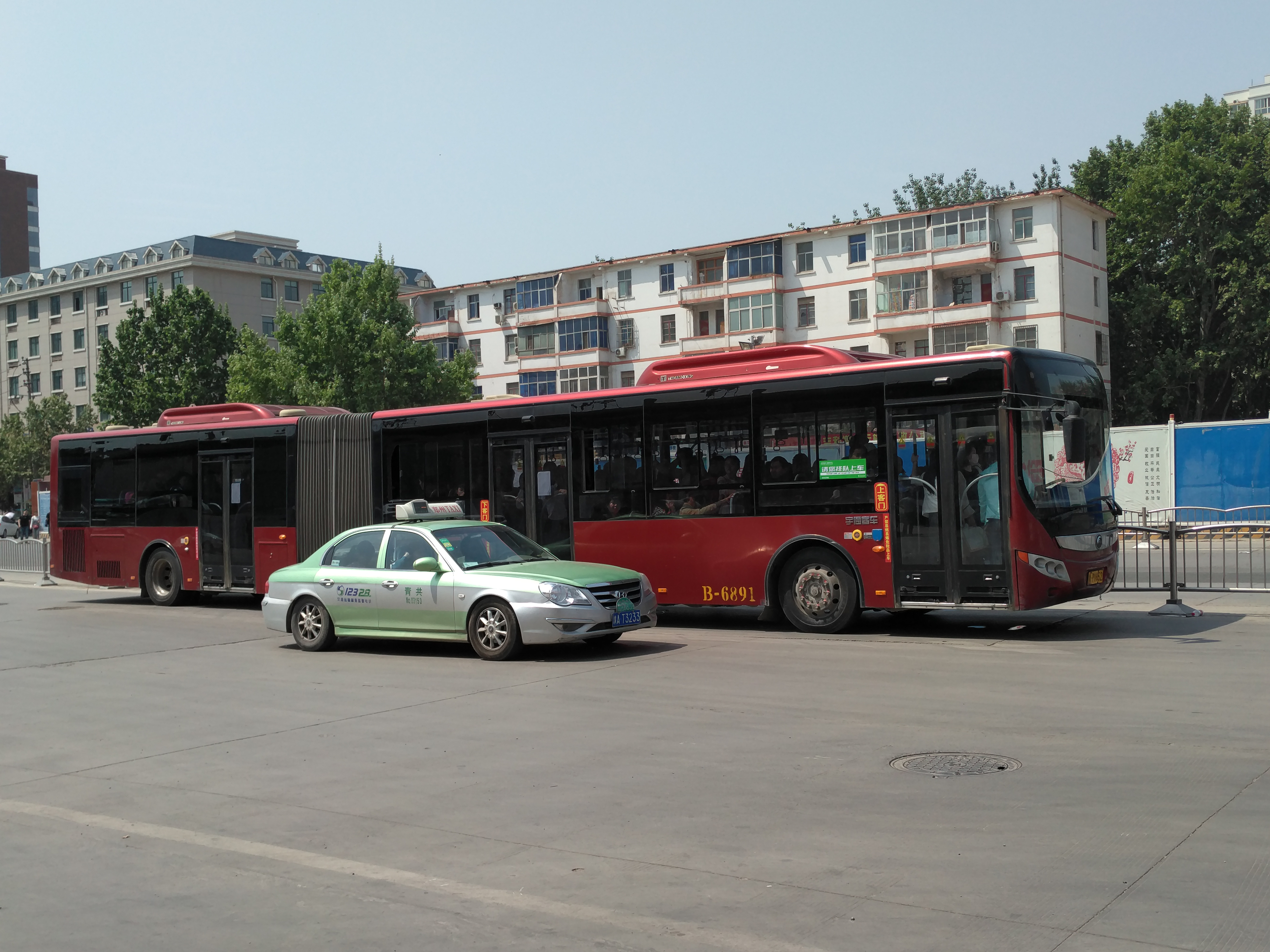 A Yutong ZK6180CHEVG1 running on Zhengzhou Bus Rapid Transit Route B1, from Dianchang Rd. Bus Depot to Zhongzhou Ave. & Nongye Rd.